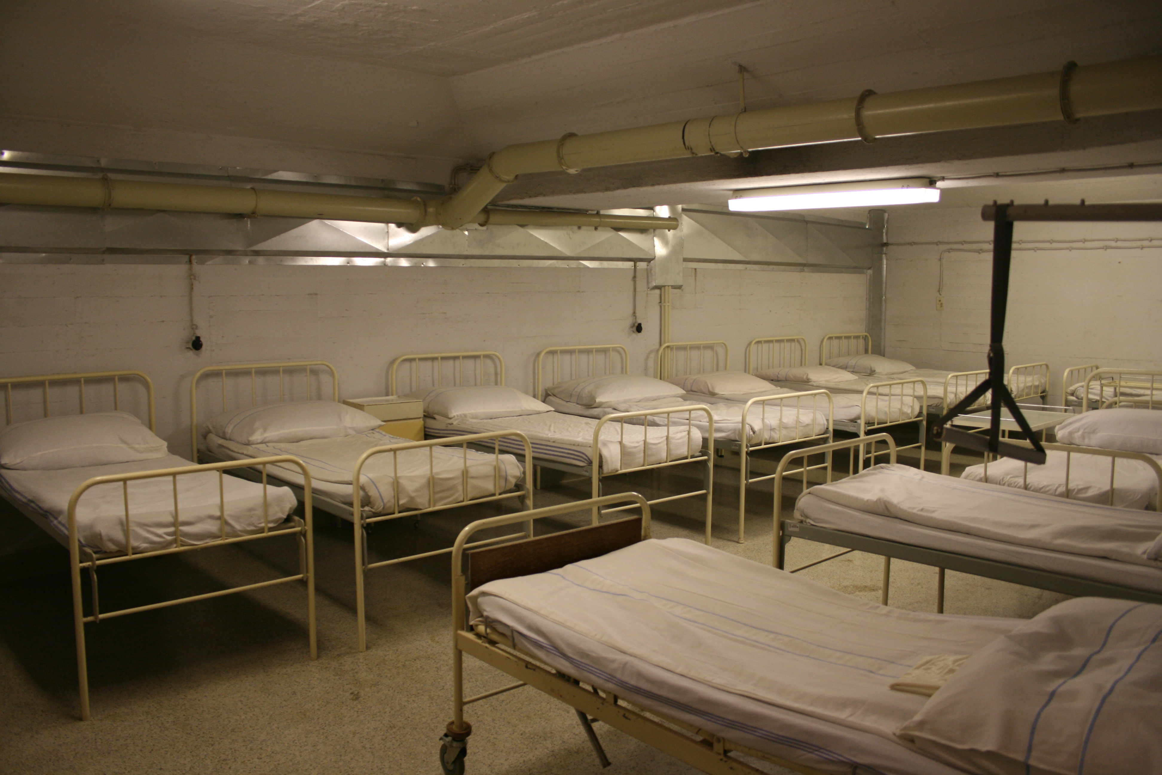 Underground facility of the Thomayer University Hospital with a fall-out shelter which serves as a backup hospital with 70 sick-beds, Prague, Czech Republic.